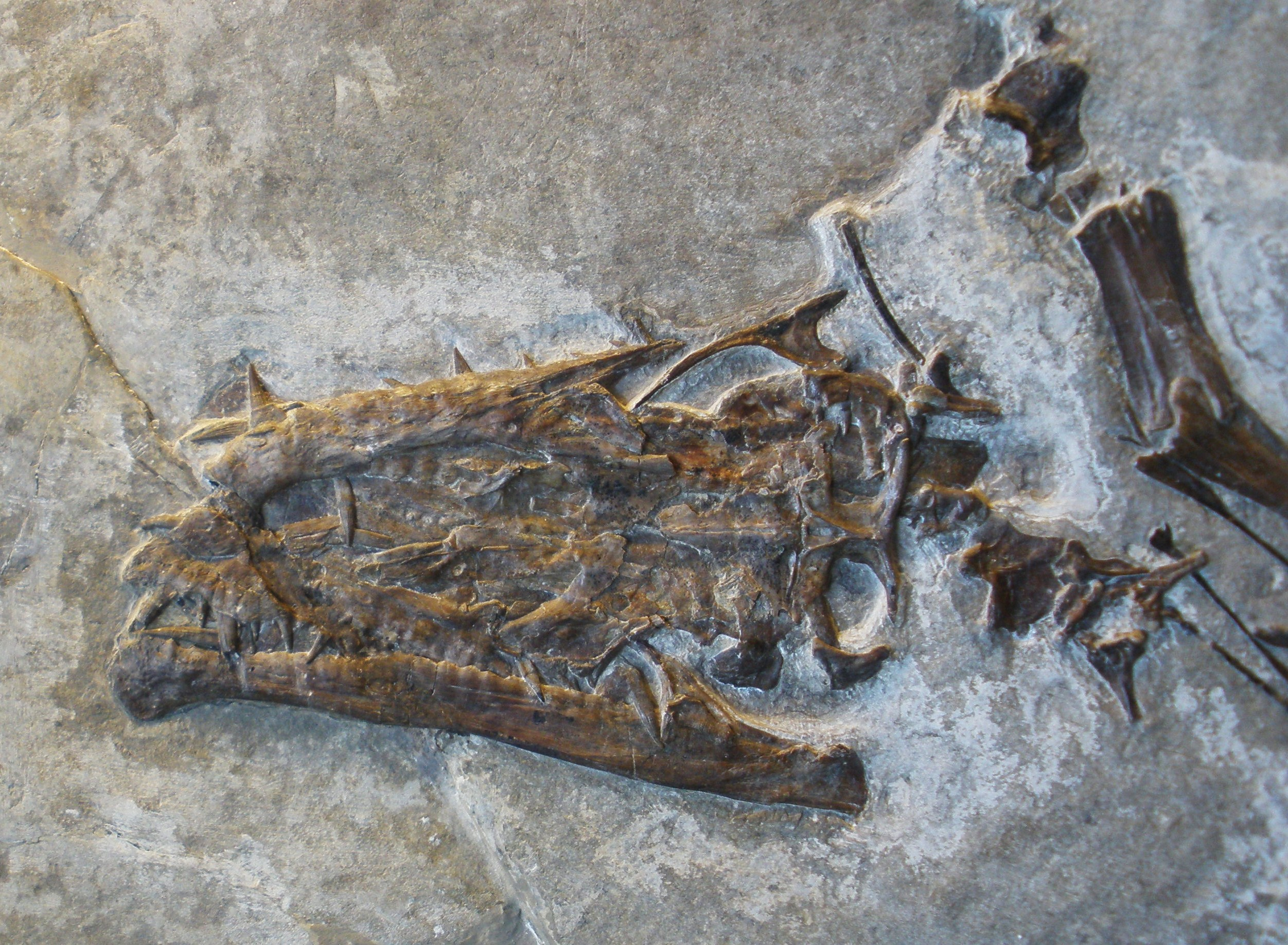 fossil tanystropheus